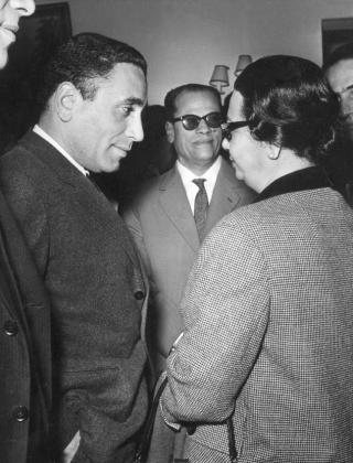 Mohammed Hassanein Heikal and Omm Kolthoum celebrate Naguib Mahfouz’s fiftieth birthday in